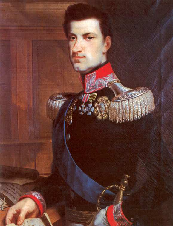 Carlo Alberto in uniform